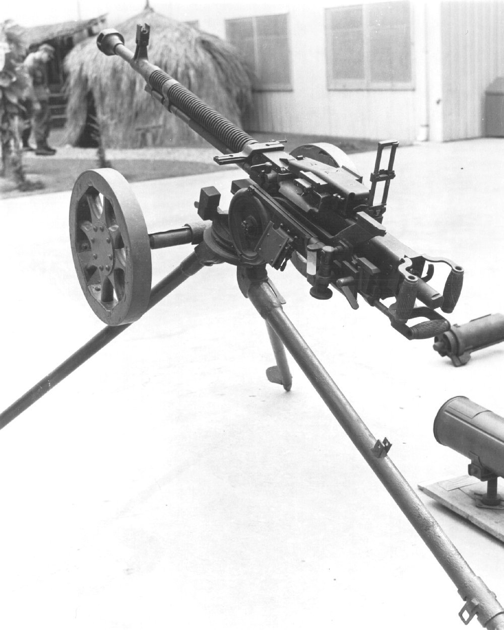 NVA weapons captured by U.S., Vietnam